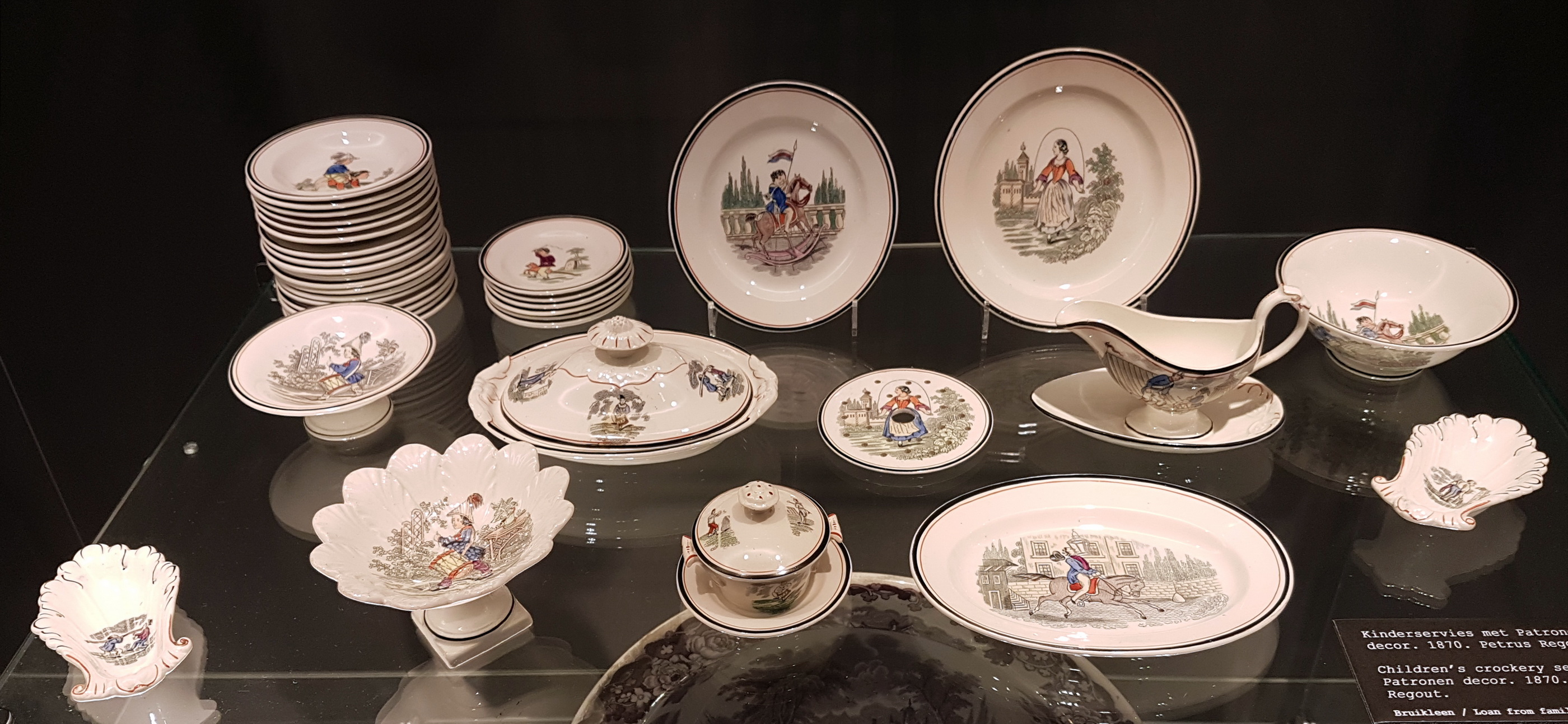 Children's dinner service with decor Patronen (1870) by Petrus Regout & Co . Maastricht pottery collection, Centre Céramique, Maastricht, Netherlands.